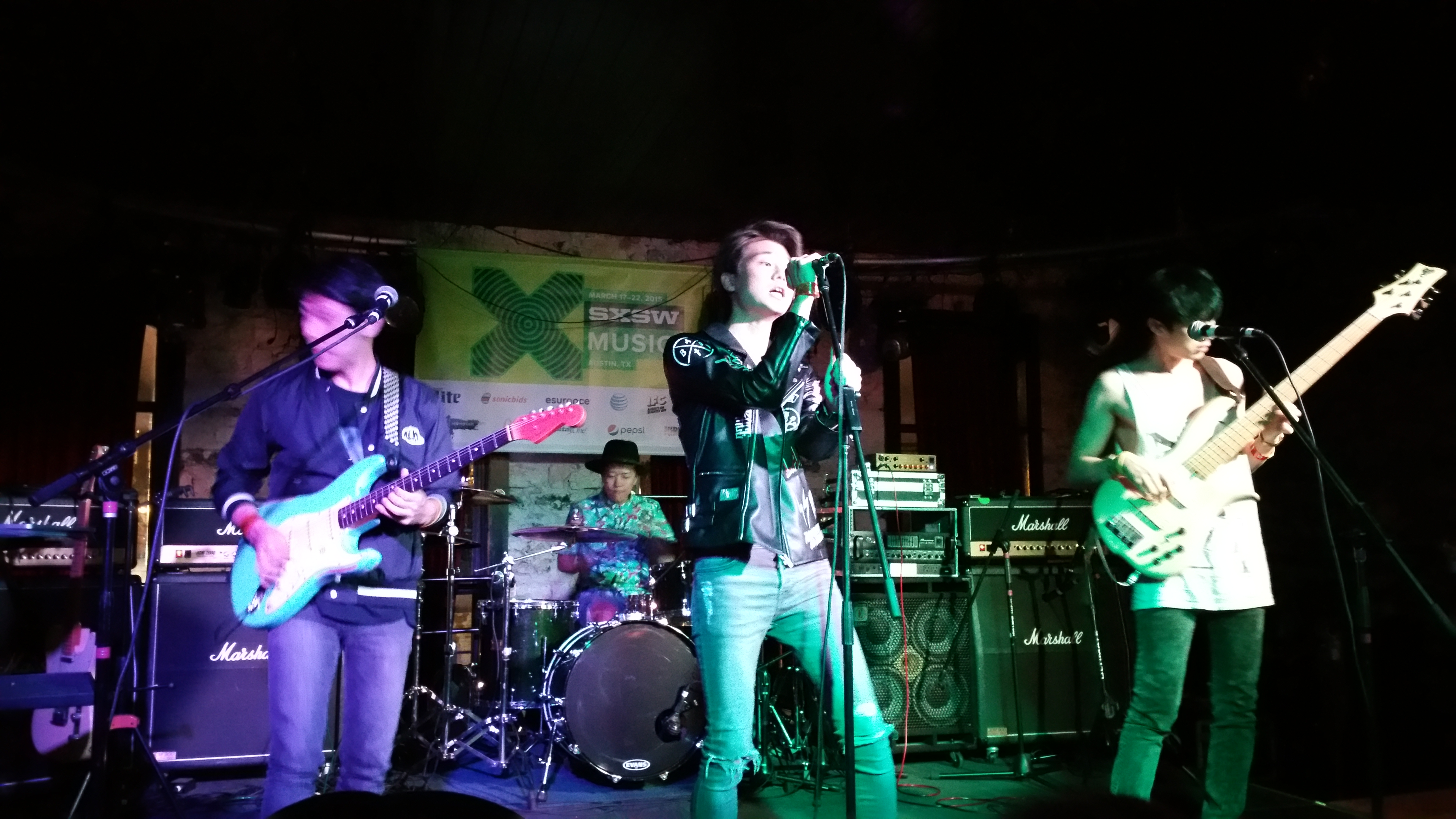 Seoulsonic SXSW 2015, The Solutions